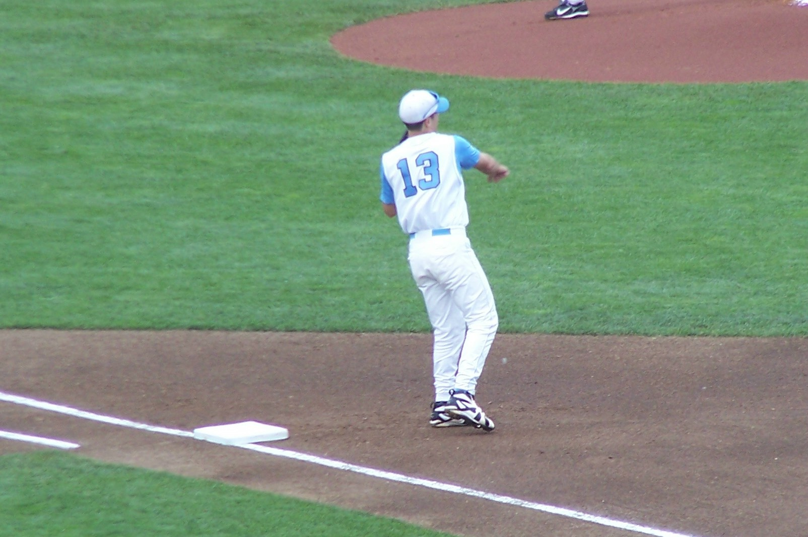 Dustin Ackley, a member of the 2009 North Carolina Tar Heels baseball team representing the University of North Carolina at Chapel Hill. The team achieved a berth to play in the 2009 Division I Men's College World Series played in Johnny Rosenblatt Stadium in Omaha, Nebraska. This picture was taken at this location.